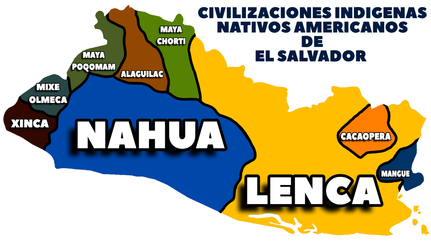 Mapa de nueve grupos indigenas nativos americanos de El Salvador en Centroamerica. Lenca, Cacaopera, Maya Poqomam, Maya Chorti, Xinca, Alaguilac, Mixe, Nahua Pipil, Nahua Mangue